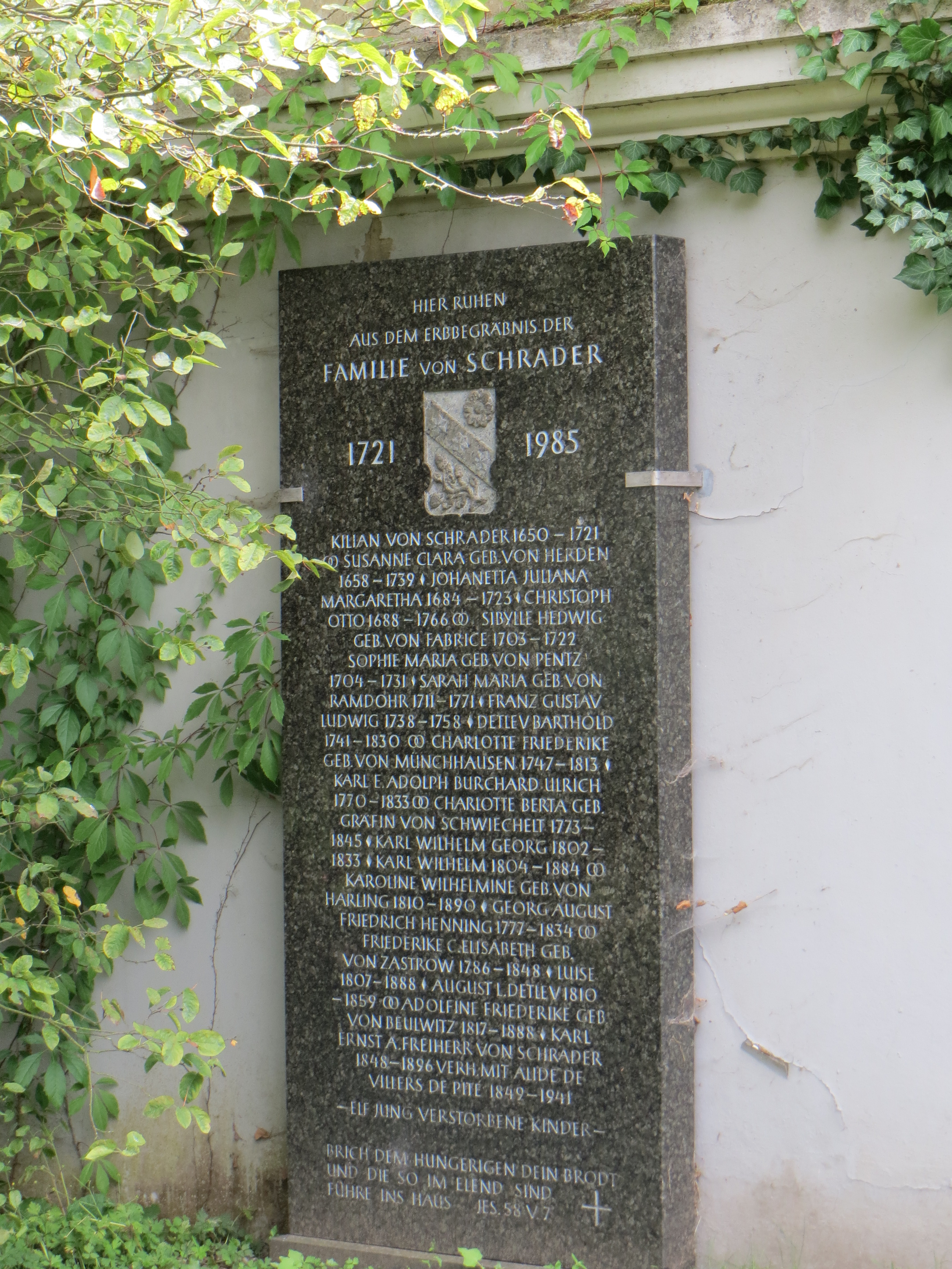 Schrader memorial St. Georgsberg